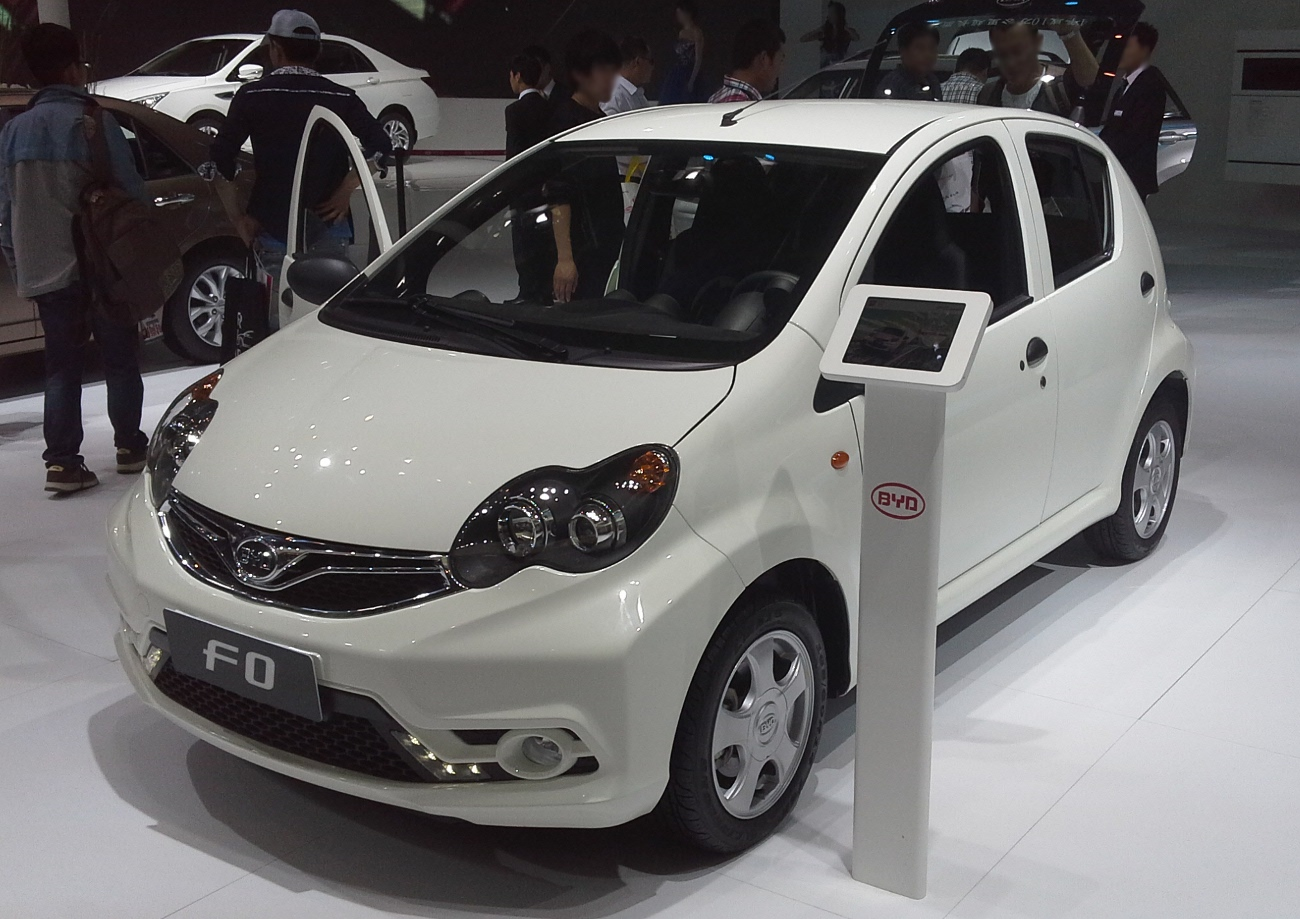 BYD F0 facelift photographed at the Auto China 2014, Beijing, China.